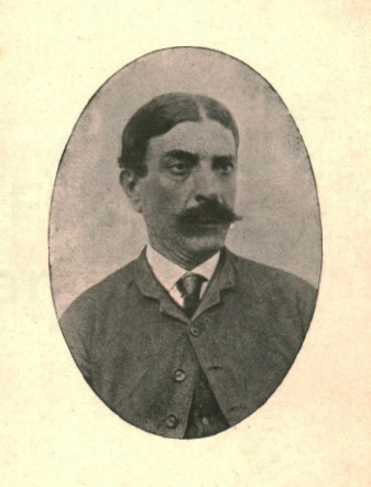 Zef Serembe